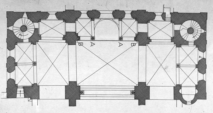 Groundplan of the Westwork of the Basilica of Sain Servatius, Maastricht, the Netherlands.This is an edited version of a file that was uploaded by Rijksdienst voor het Cultureel Erfgoed on 7 January 2013.